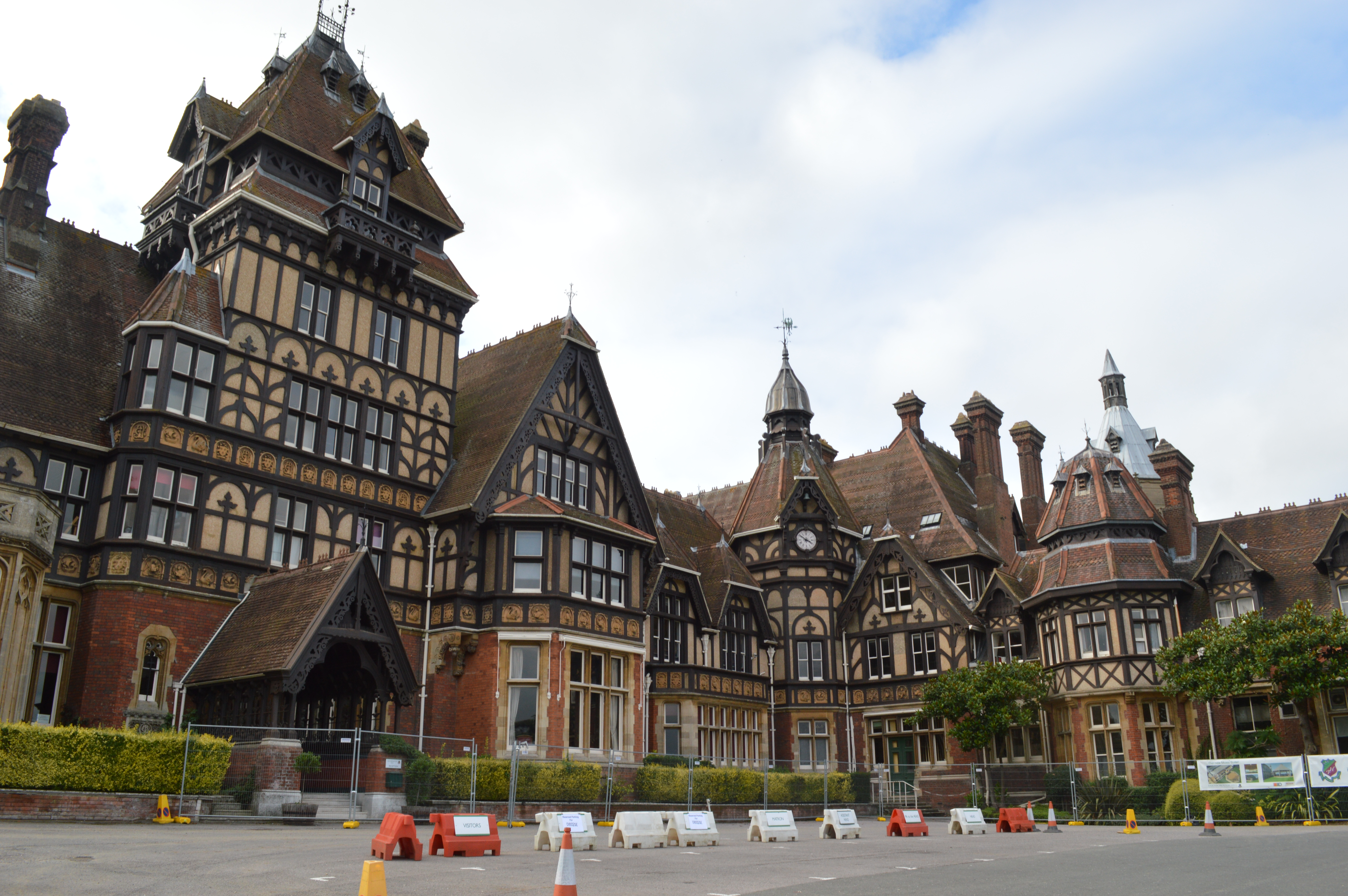 Main Building to Farnborough Hill Convent